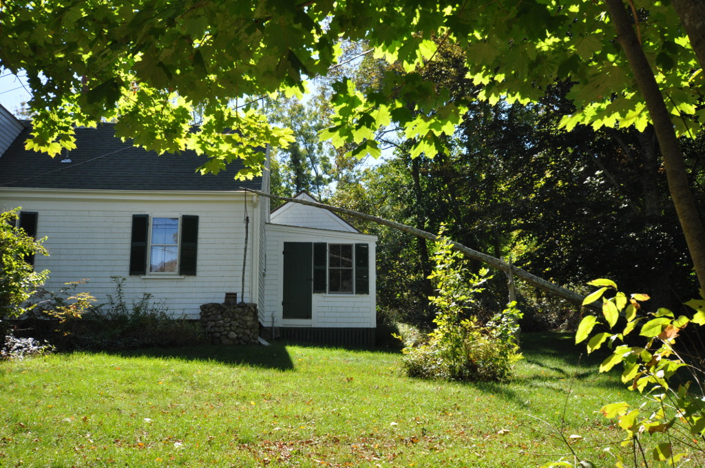 Woodworth House, aka the Old Oaken Bucket House, Scituate, Massachusetts. View of the well and bucket.